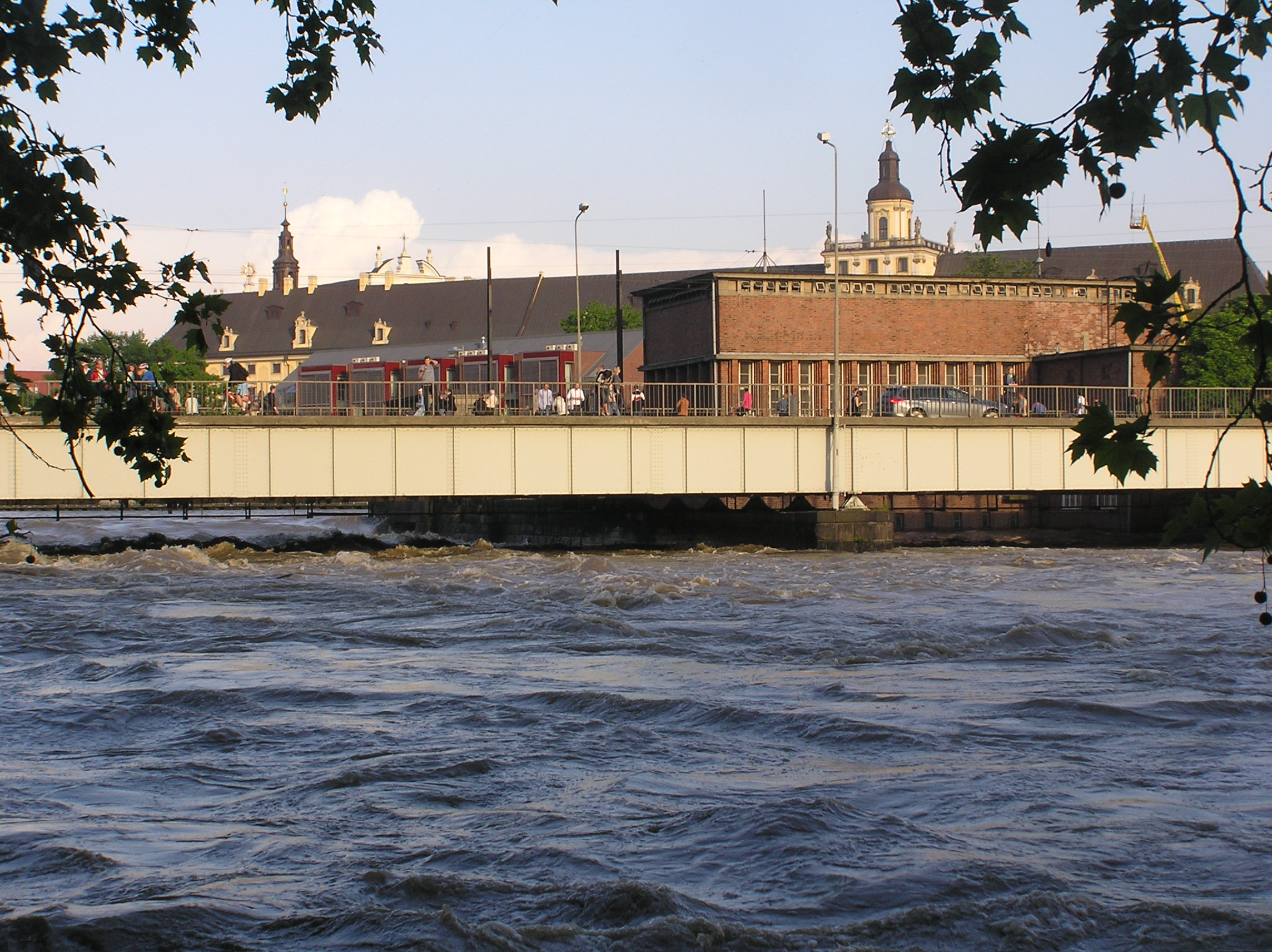 Wrocław, weir of northern hydroelectric plant in Wrocław, Northern Pomorski Bridge